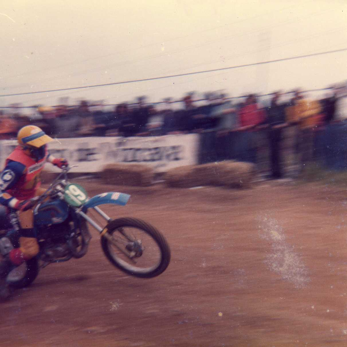 Jean-Claude Laquaye (Bultaco) at Circuit del Vallès, Sabadell-Terrassa (Catalonia), during the 1978 spanish MX GP 250cc.